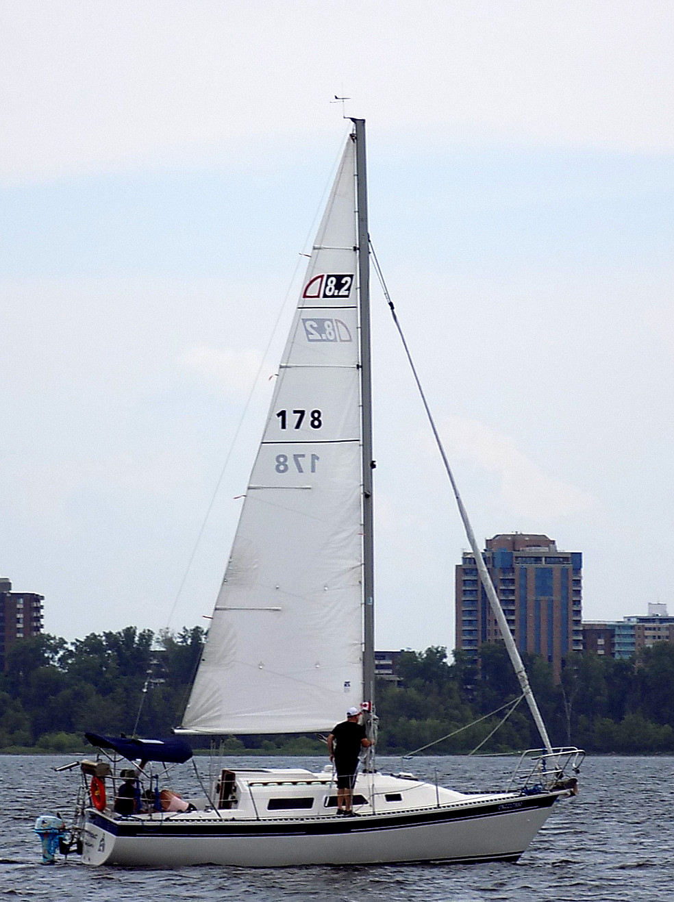 An Aloha 8.2 sailboat named Rocket Man.